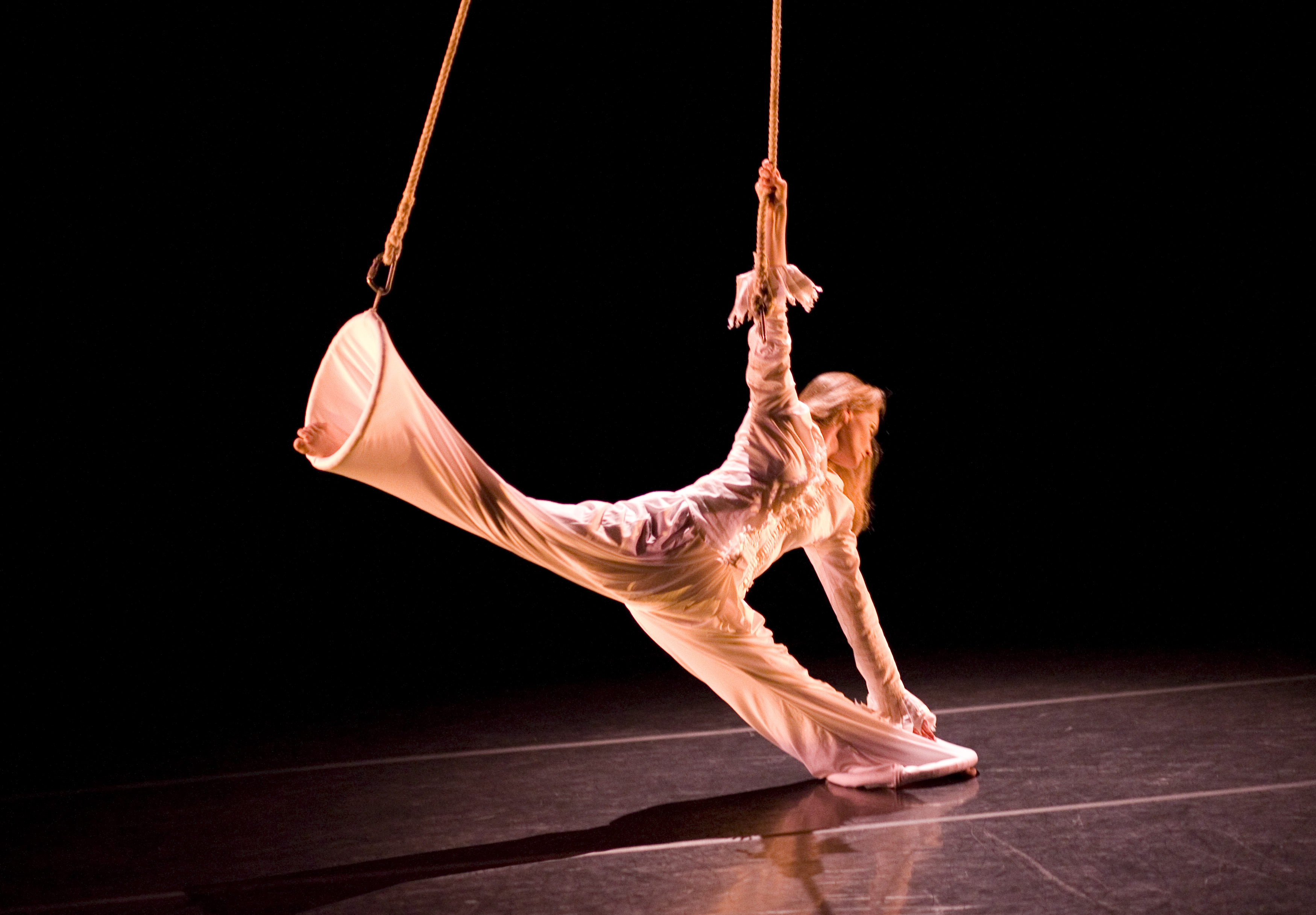 aerial dance, fred deb, aerial dance festival, boulder